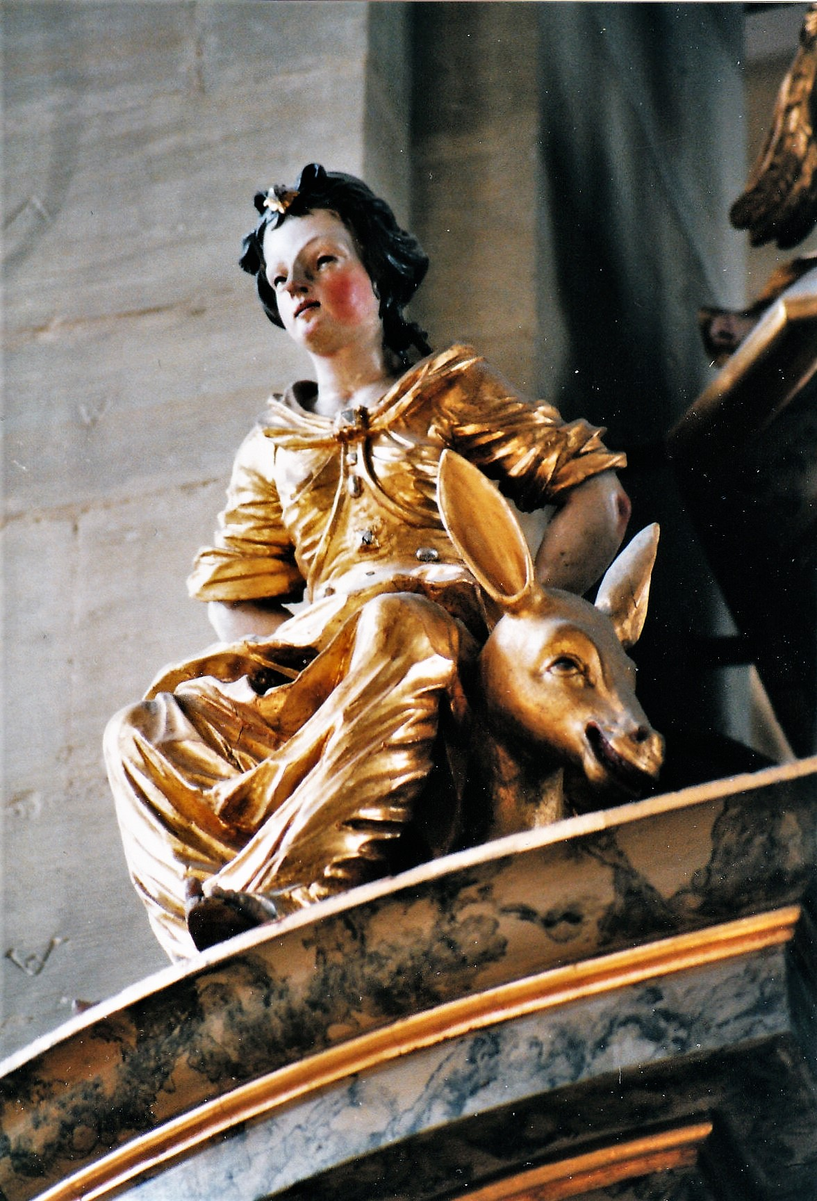 Comburg, pulpit cover by Balthasar Esterbauer (1715) - Seven deadly sins: sloth